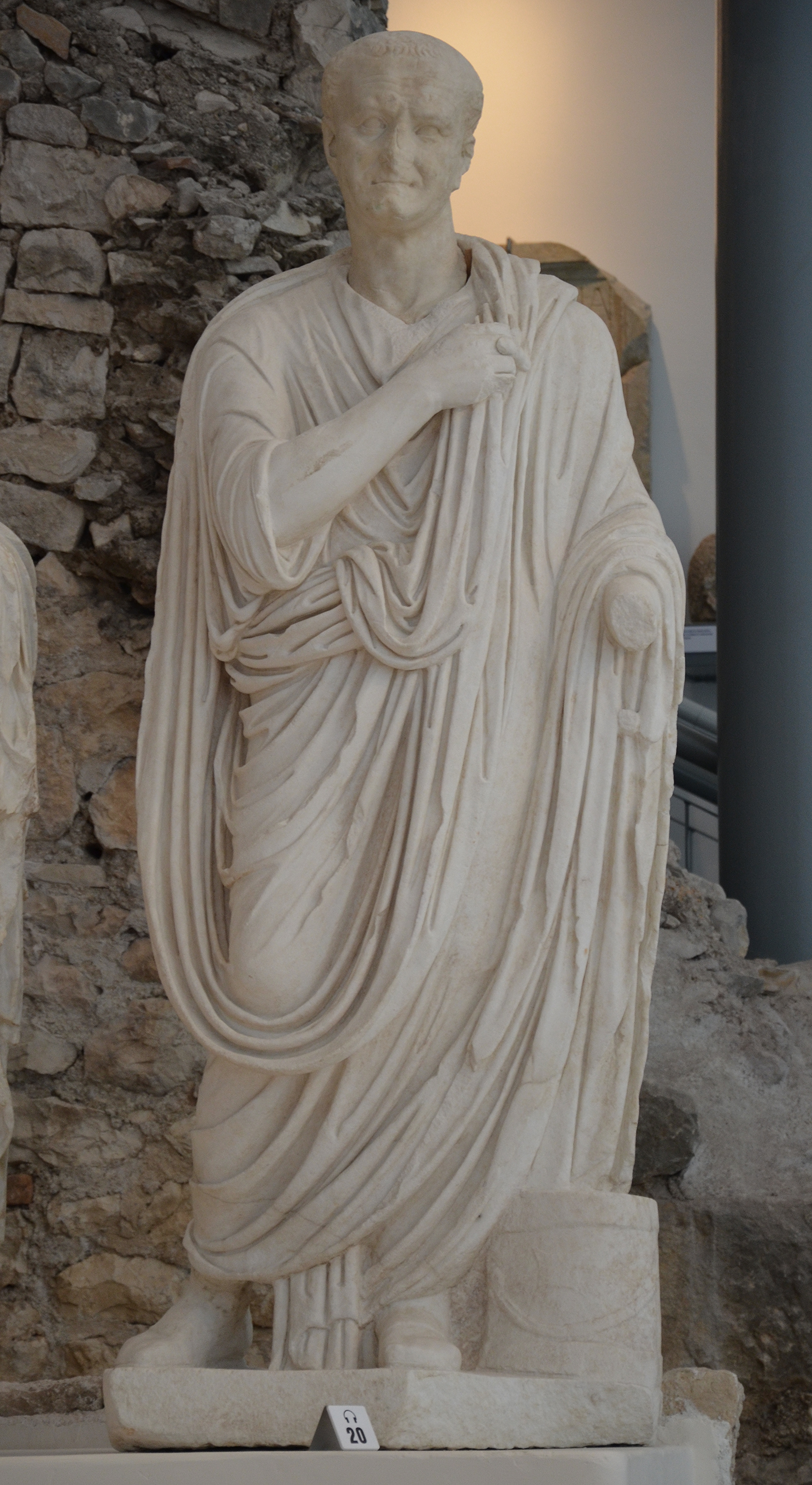 Statue of Vespasian